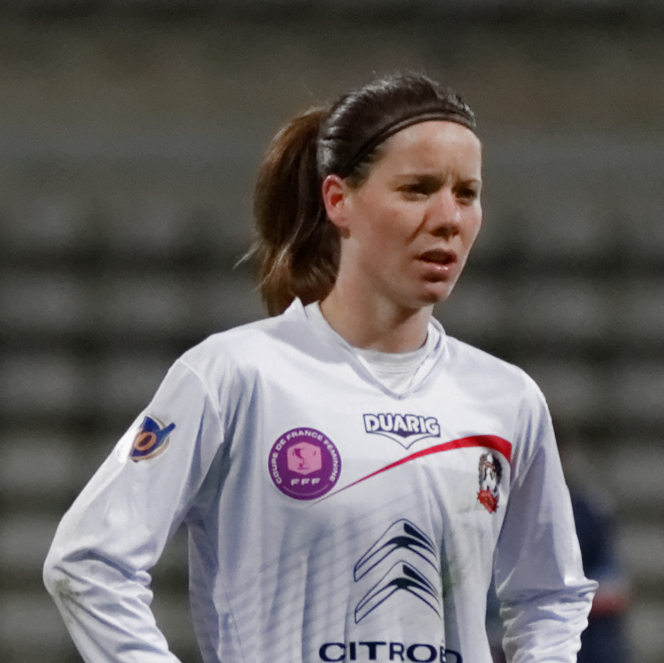 Anaïg Butel PSG-Juvisy, March 23th, 2013.